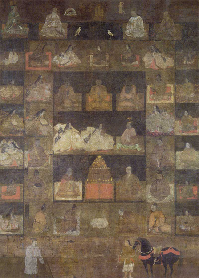 Shoko Mandala, Horyuji, Japan